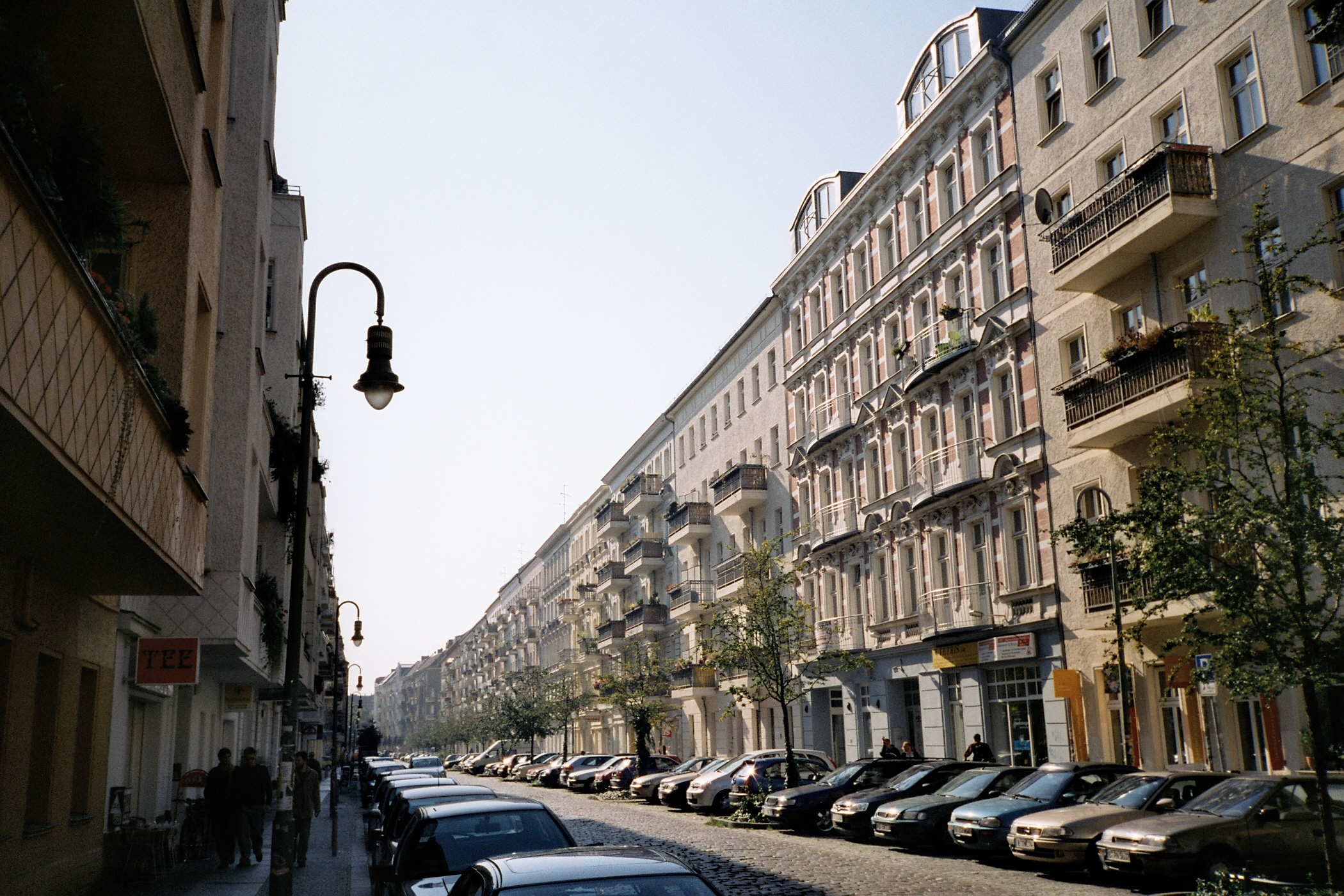 Description: Buildings on Mainzer Straße in Berlin. Source: self-made. I release it into the public domain.